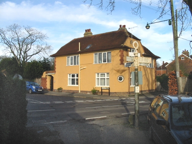 The former pub, The Basket Makers on Nargate Street